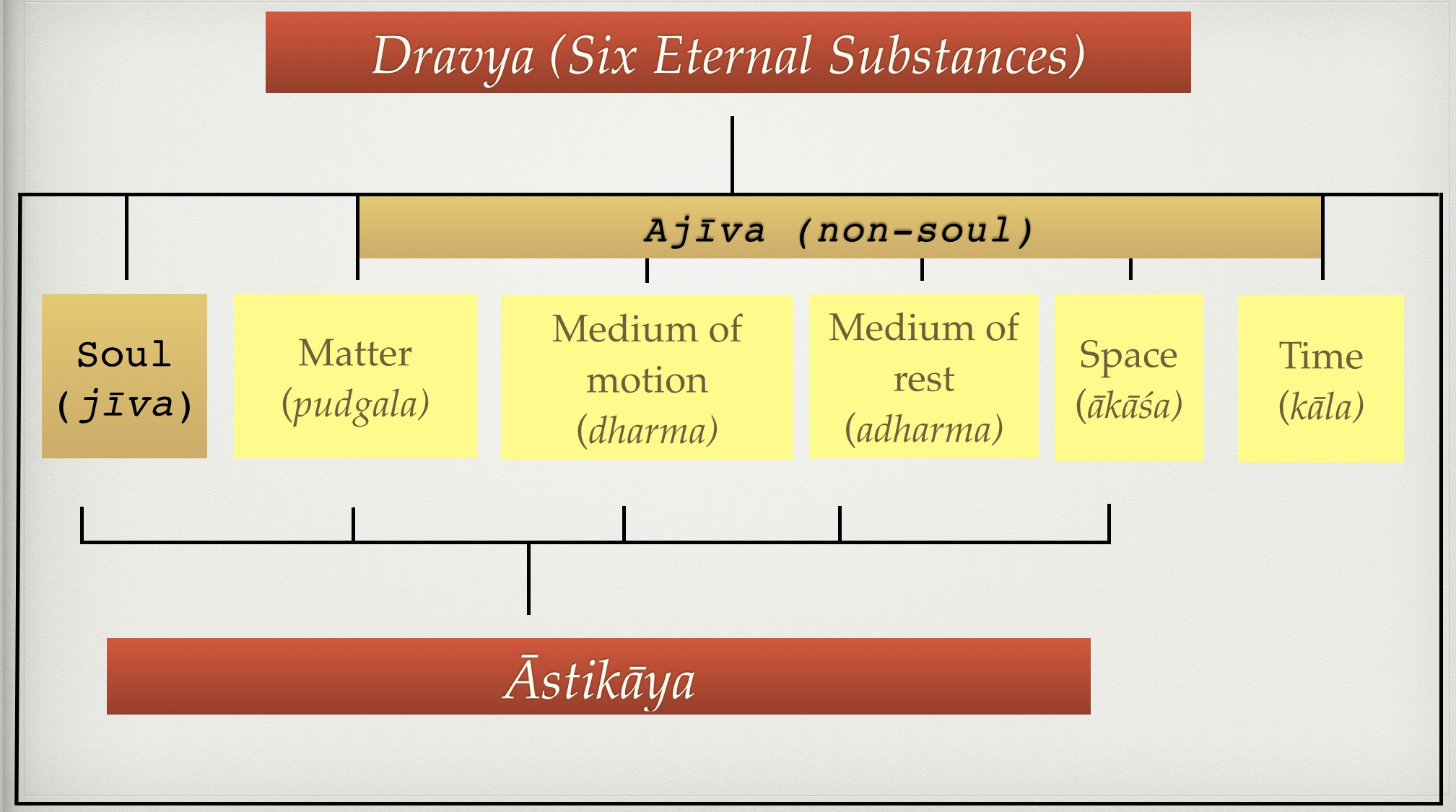 Chart showing six Dravya and five Astikaya and also classifying jīva and ajīva